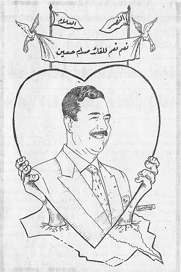 propagandistic art to glorify Iraqi president Saddam Hussein after victory over Iran